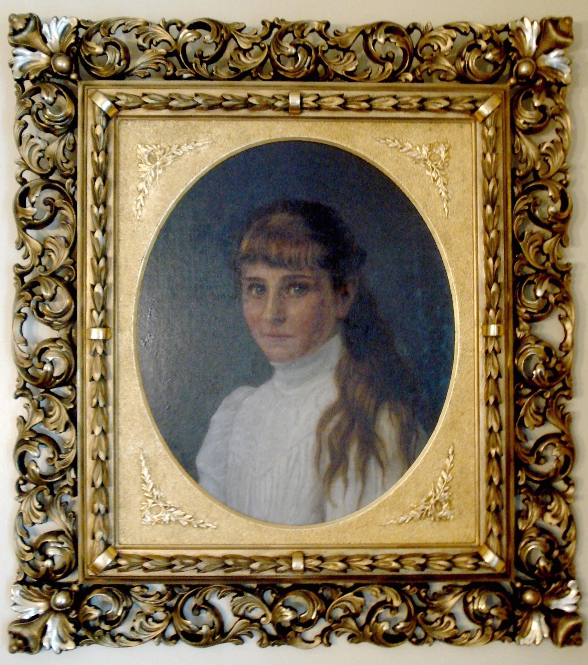 Portait of Ella Hager (born 1875) by the painter Johannes Christian Deiker (1822-1895)in the year 1894